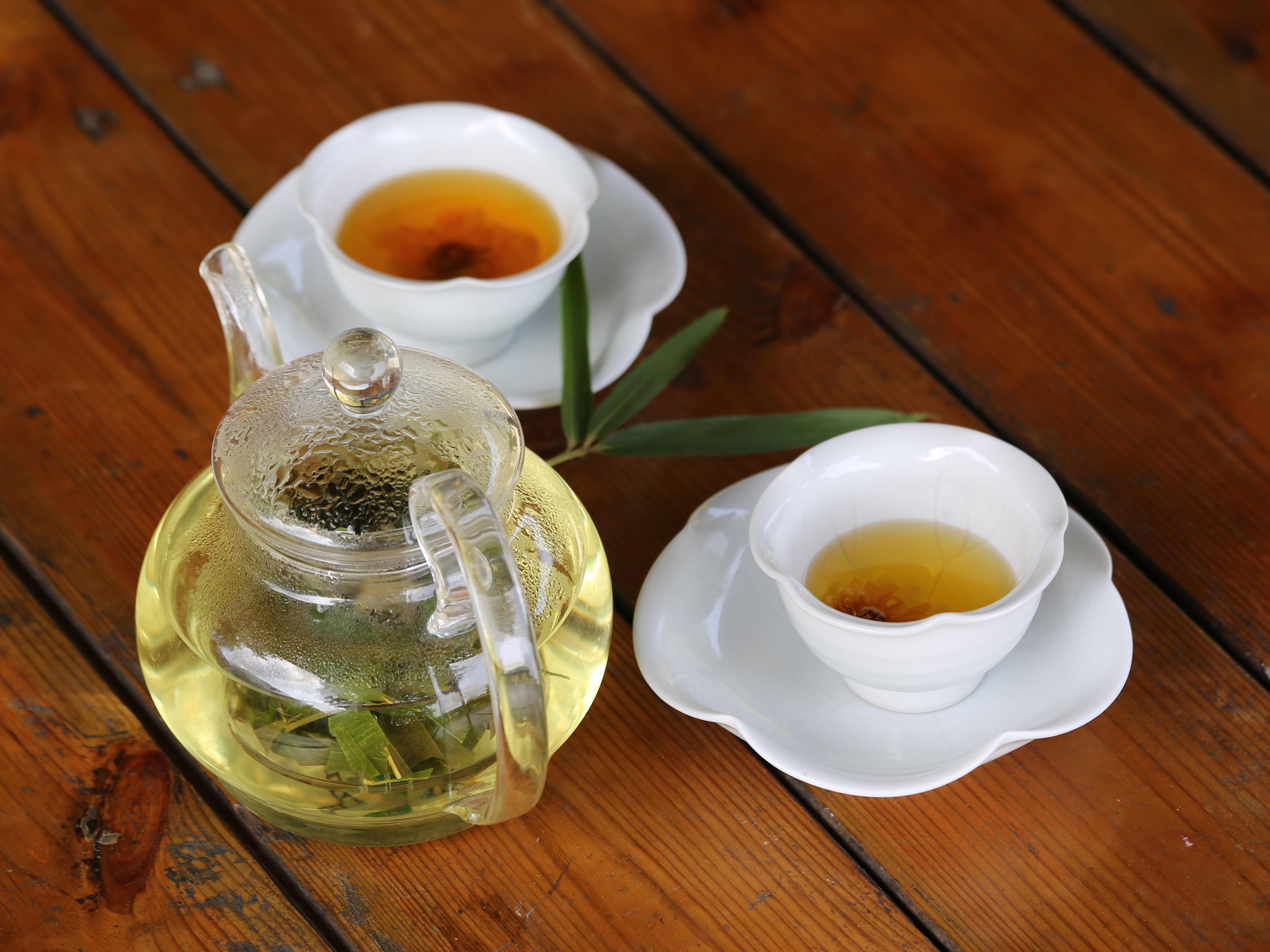 Daennip-cha (bamboo leaf tea)